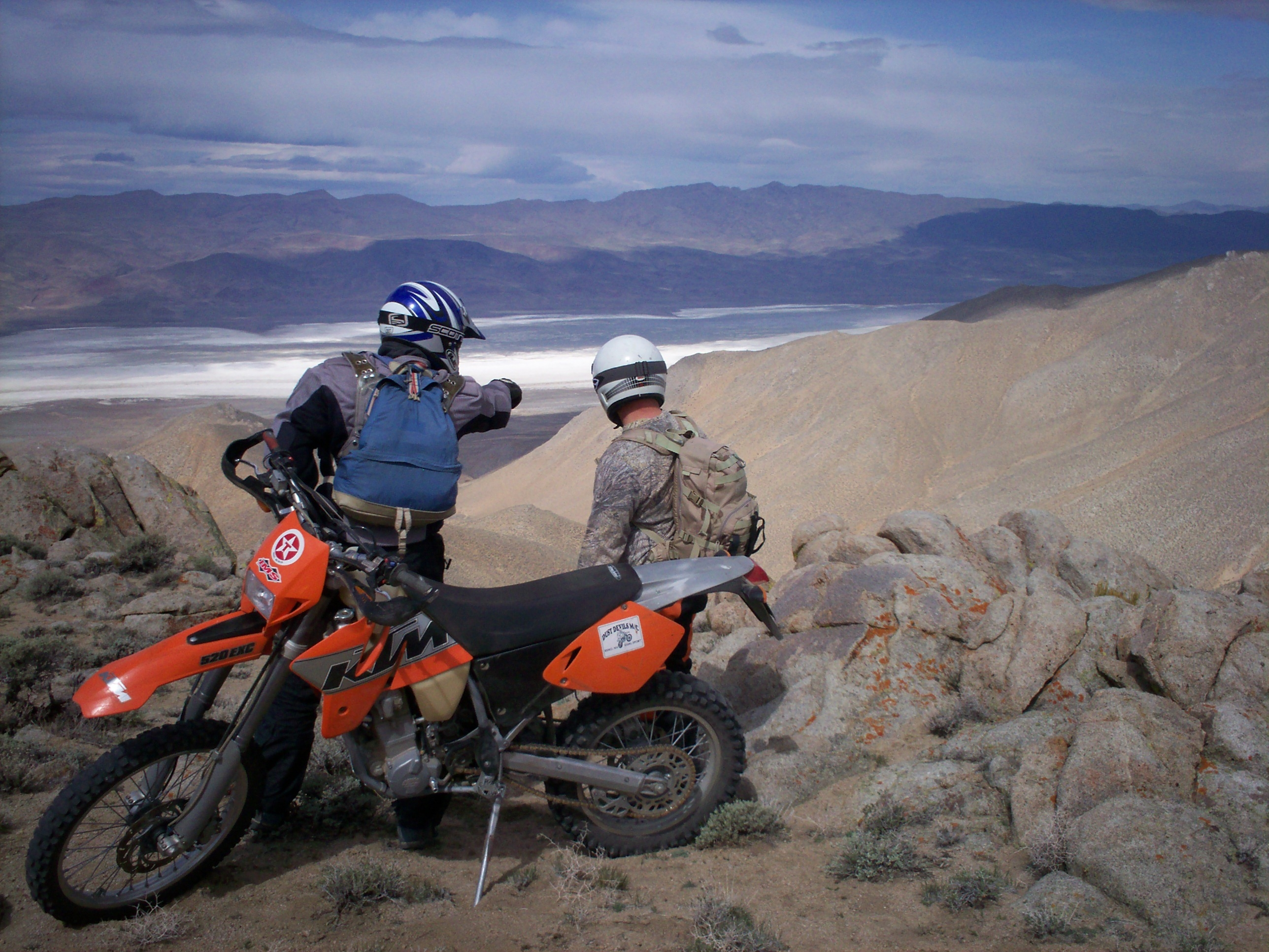 DualSport, KTM 525EXC